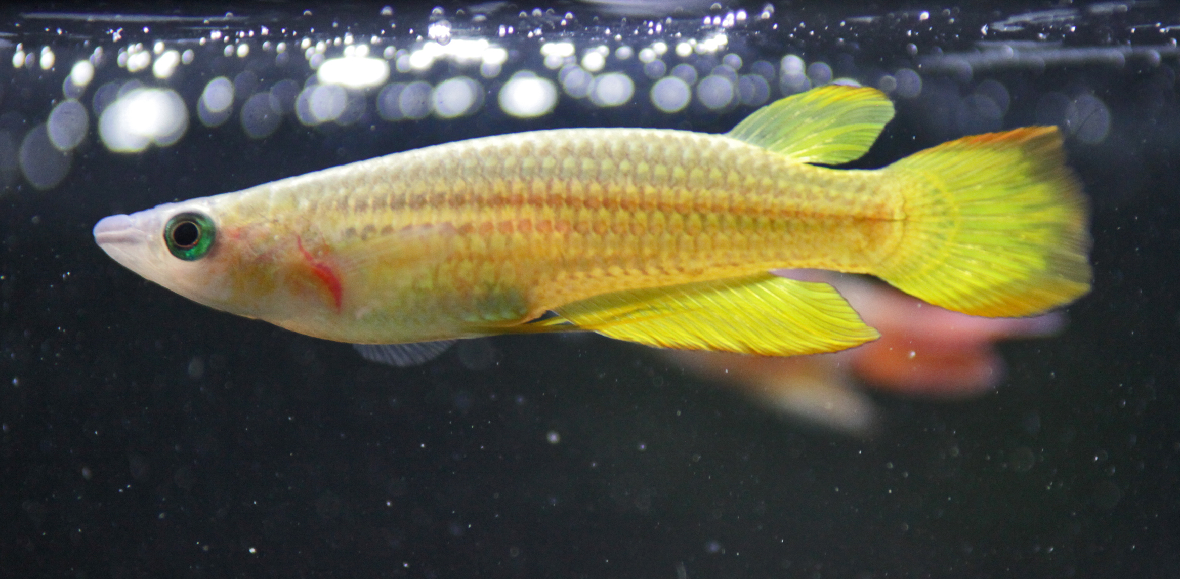 Aplocheilus lineatus, male